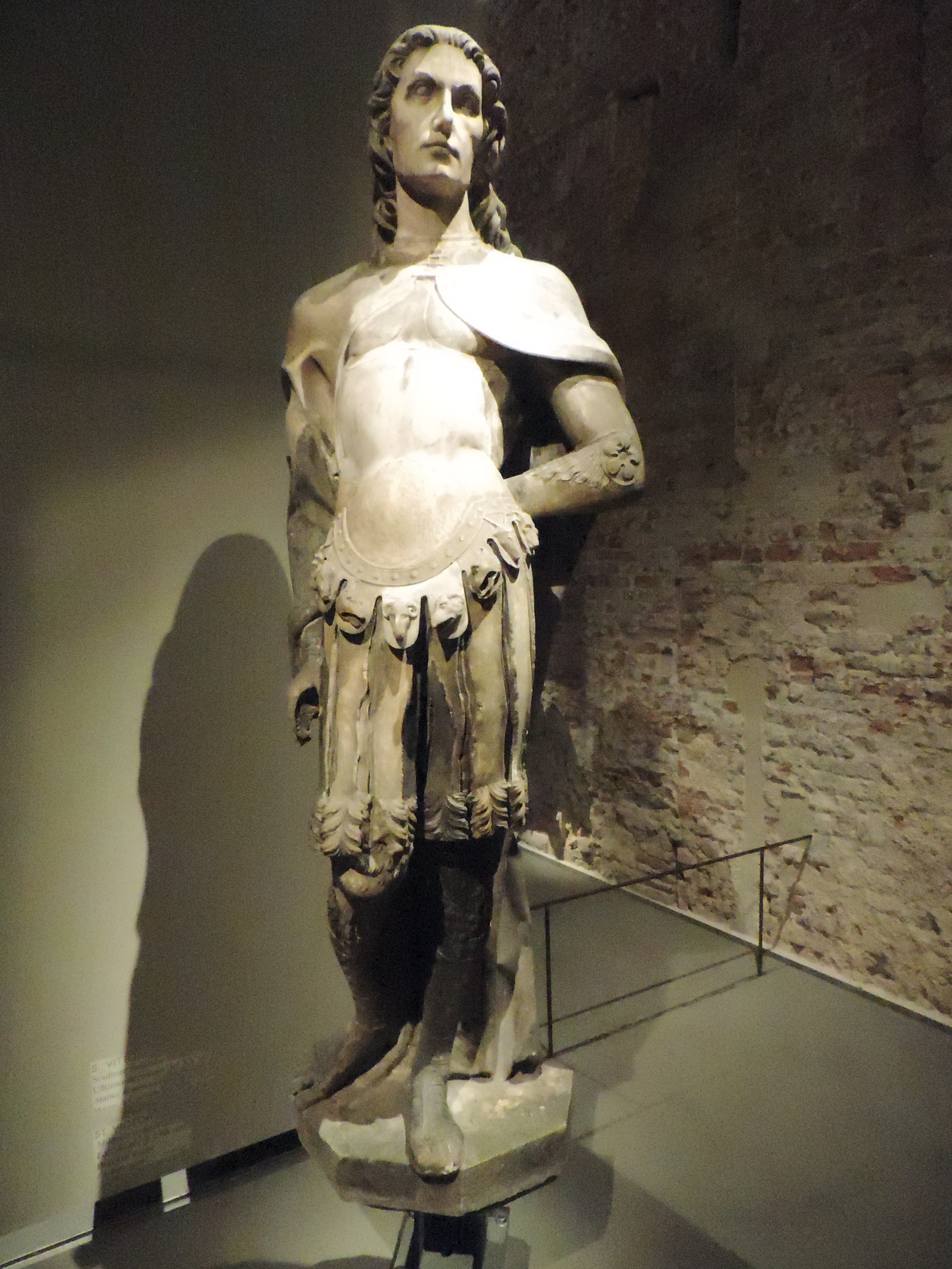 Statue of St Victor in Museo del Duomo - Milan. Author: Milanese sculptor (last decade of 15th century). Bracket statue from Candoglia marble.